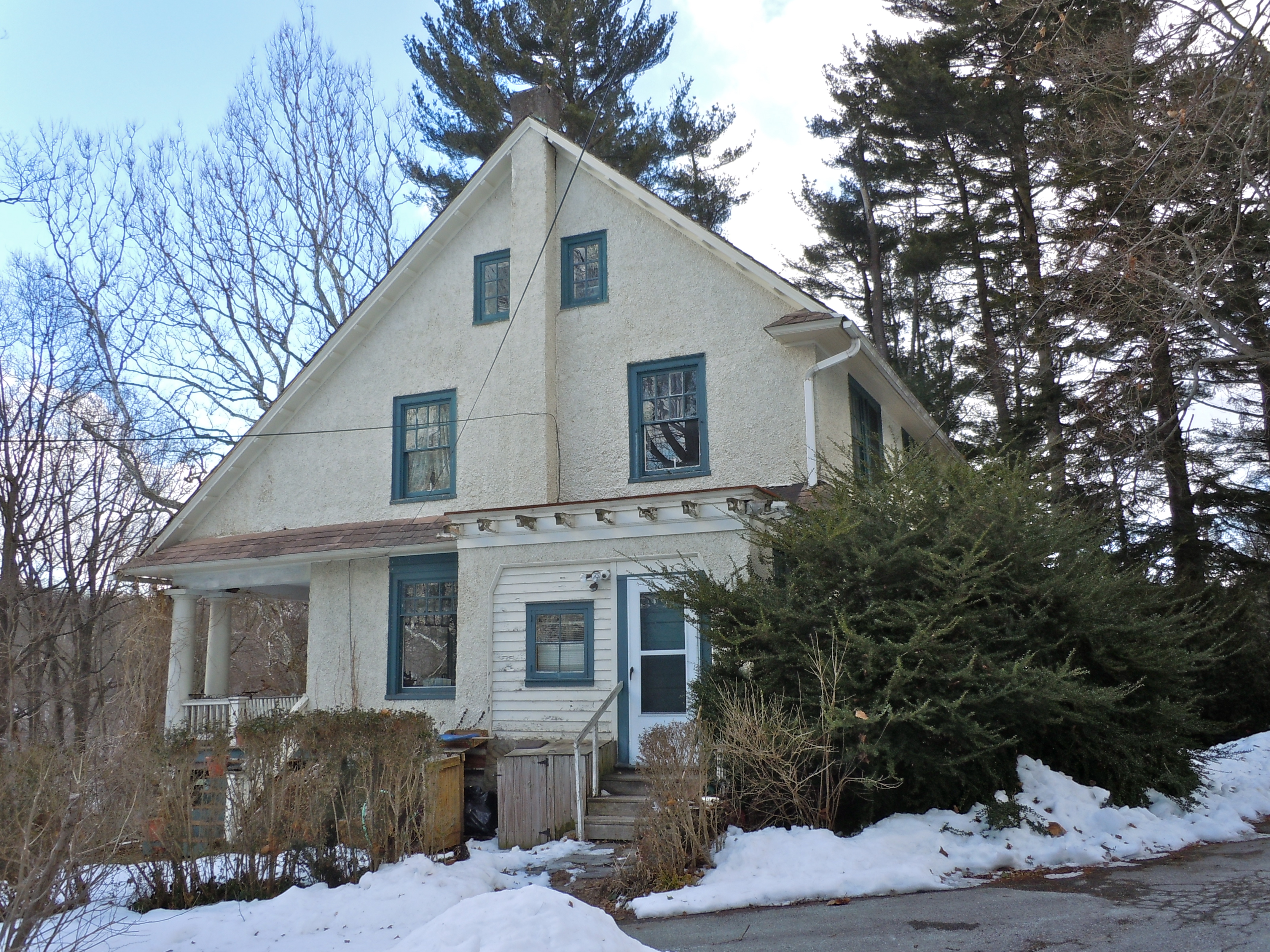 House where Anna Howard Shaw lived with Lucy Anthony (niece of Susan B. Anthony) at 240 Ridley Creek Road, near Media Pennsylvania. (often referred to as in Moylan, PA because of proximity to Moylan-Rose Valley RR Station) coords are 39.905374,-75.392582